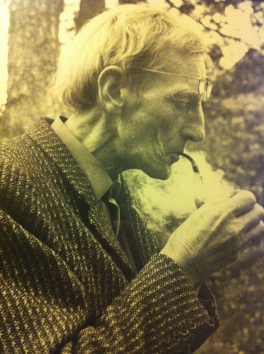 The Norwegian sculptor, autour and pewterer Gunnar Havstad.